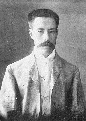 Mitsuzaburo Tokura